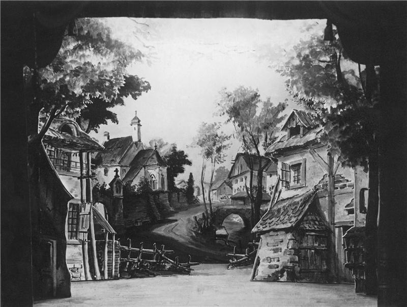 Set design to Bedřich Smetana's The Bartered Bride, act I (Prague National Theatre, 1883)